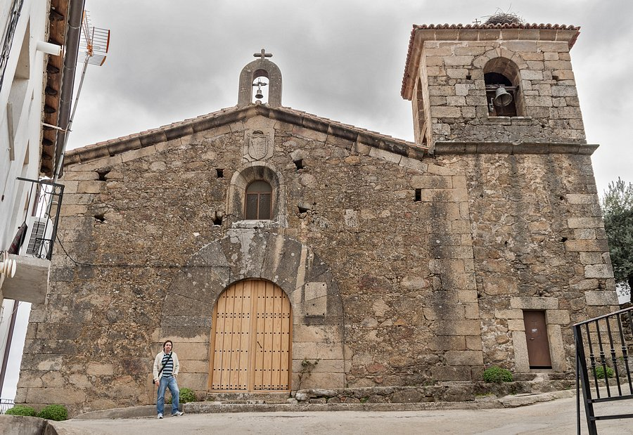 Iglesia de Valdastillas